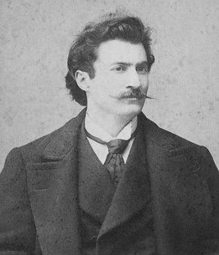 Ottoman poet Rıza Tevfik Bölükbaşı in his middle age. Photo dates from the late 1890s.